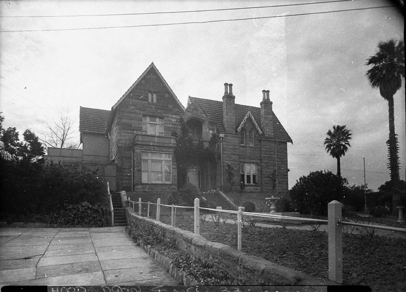 Nugal Hall, Milford Ave, Randwick, Sydney (taken for L.J. Hooker Ltd)